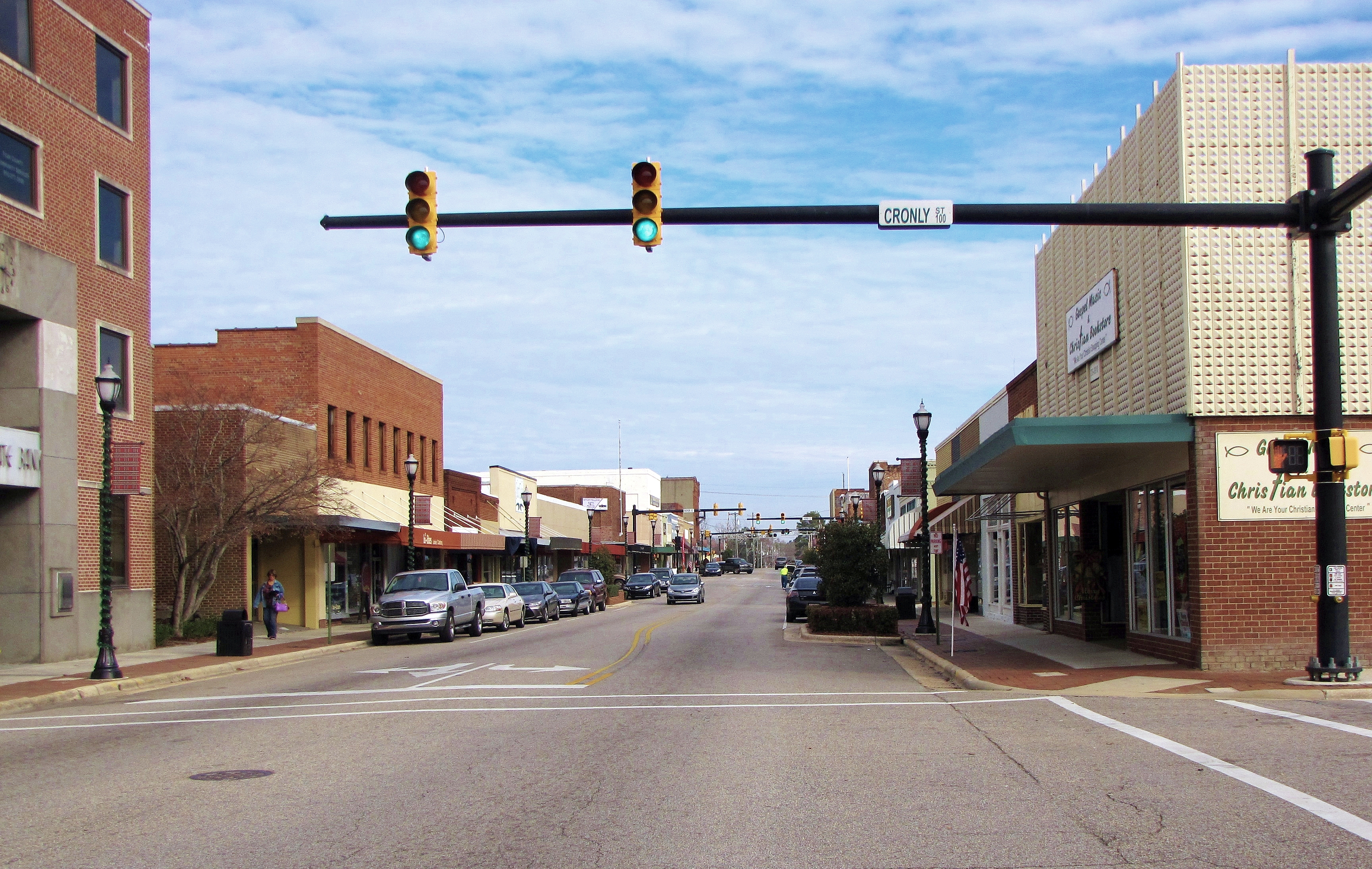 Main Street on U.S. Route 401 in Laurinburg, North Carolina.